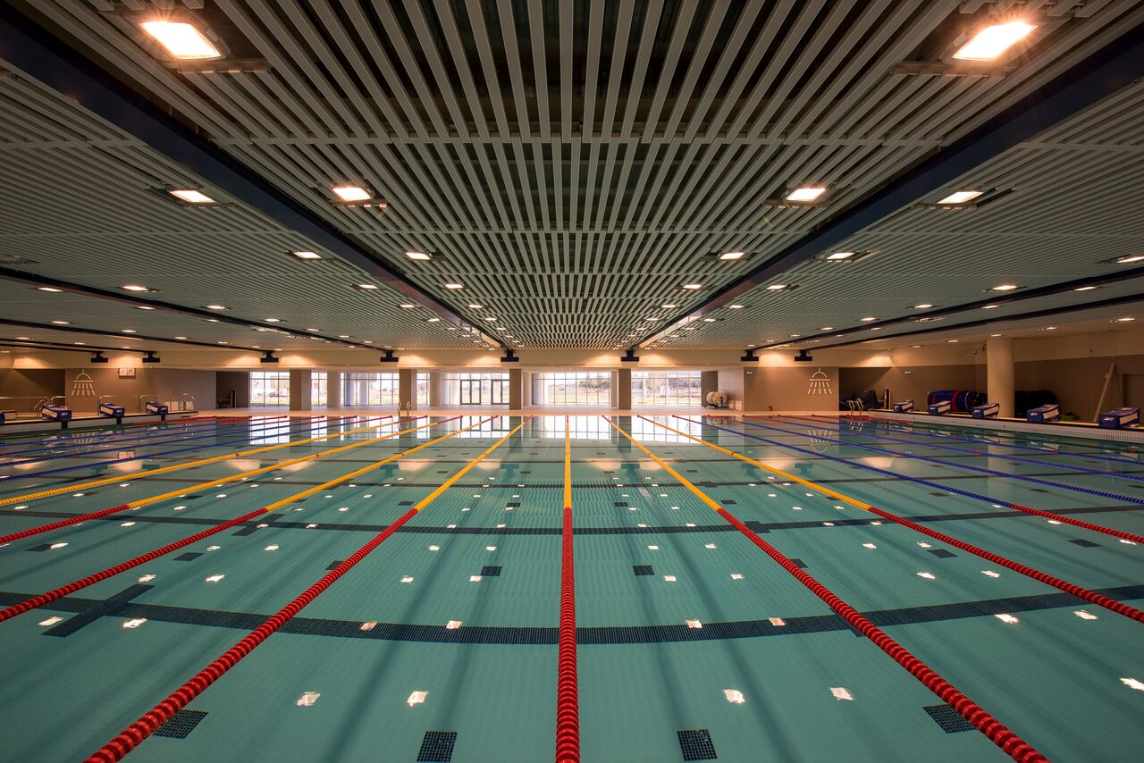 Baku Aquatic Palace, Olympic size swimming pool